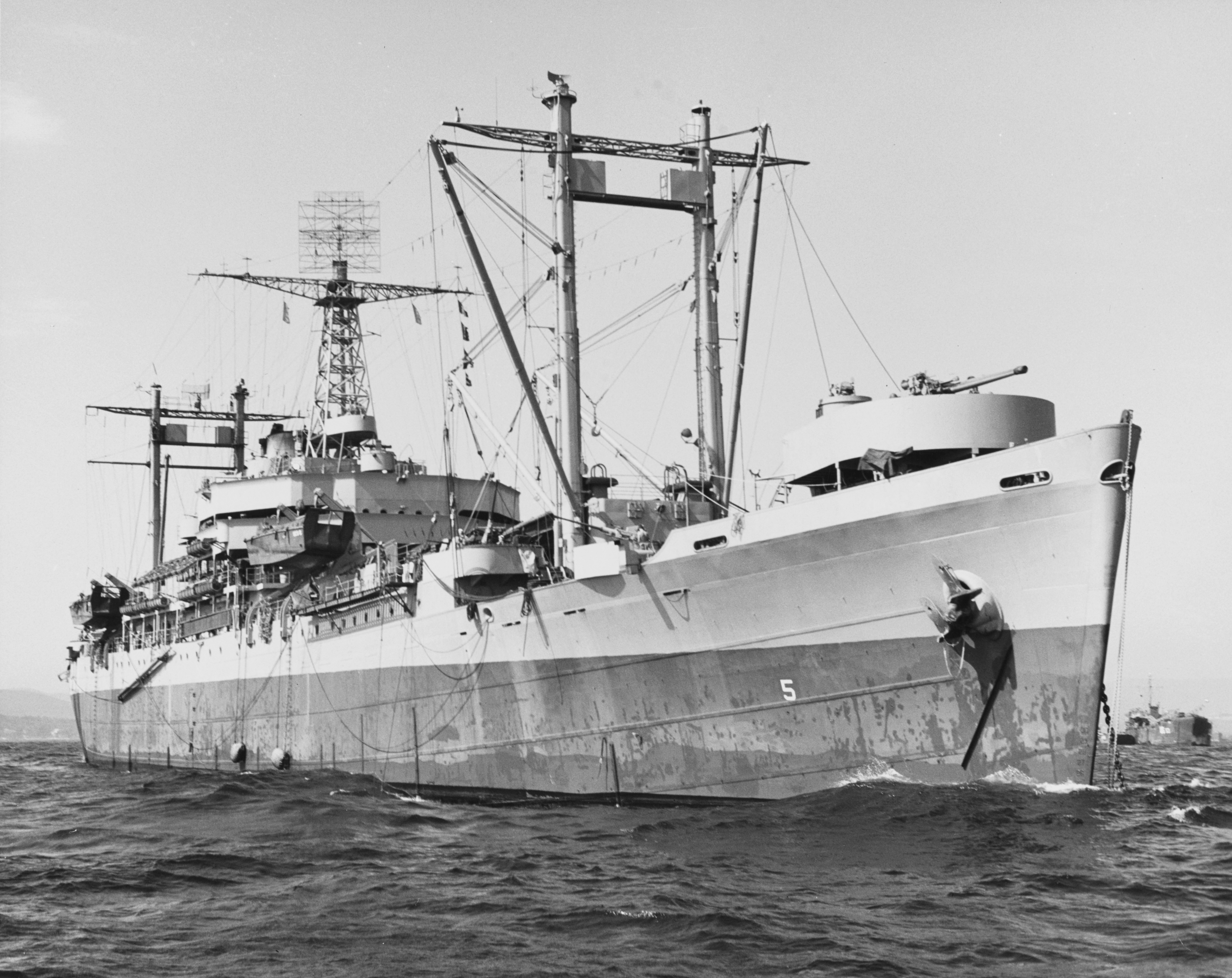 The U.S. Navy amphibious force command ship USS Catoctin (AGC-5) at anchor on 22 August 1944, shortly after the landings in southern France. Catoctin was force flagship for that operation, and operated off the invasion beaches between 15 August and 15 September 1944. Note the SK-1 air search radar.